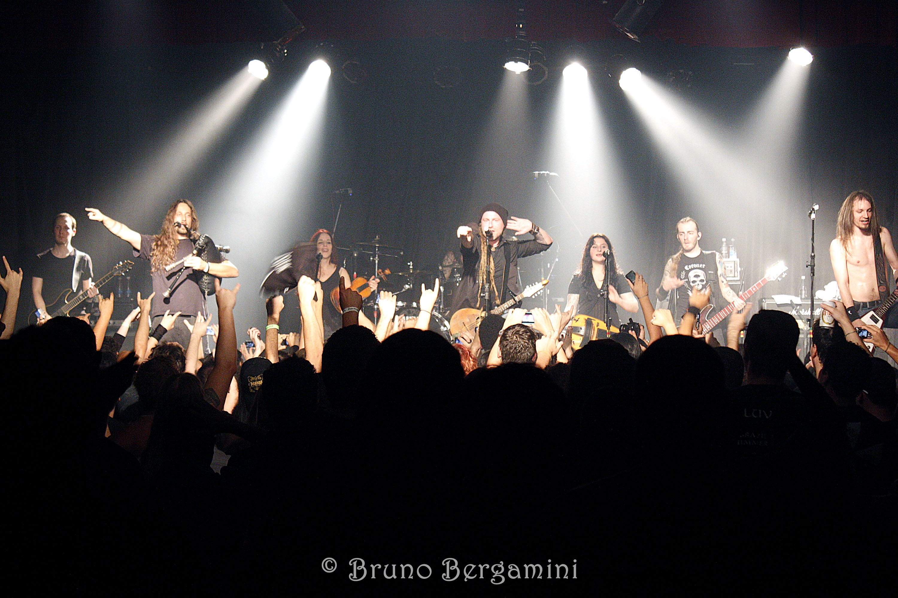 Eluveitie live at their Show at the 20.01.2012 in Sao Paulo, 3rd concert of the Helvetios world tour